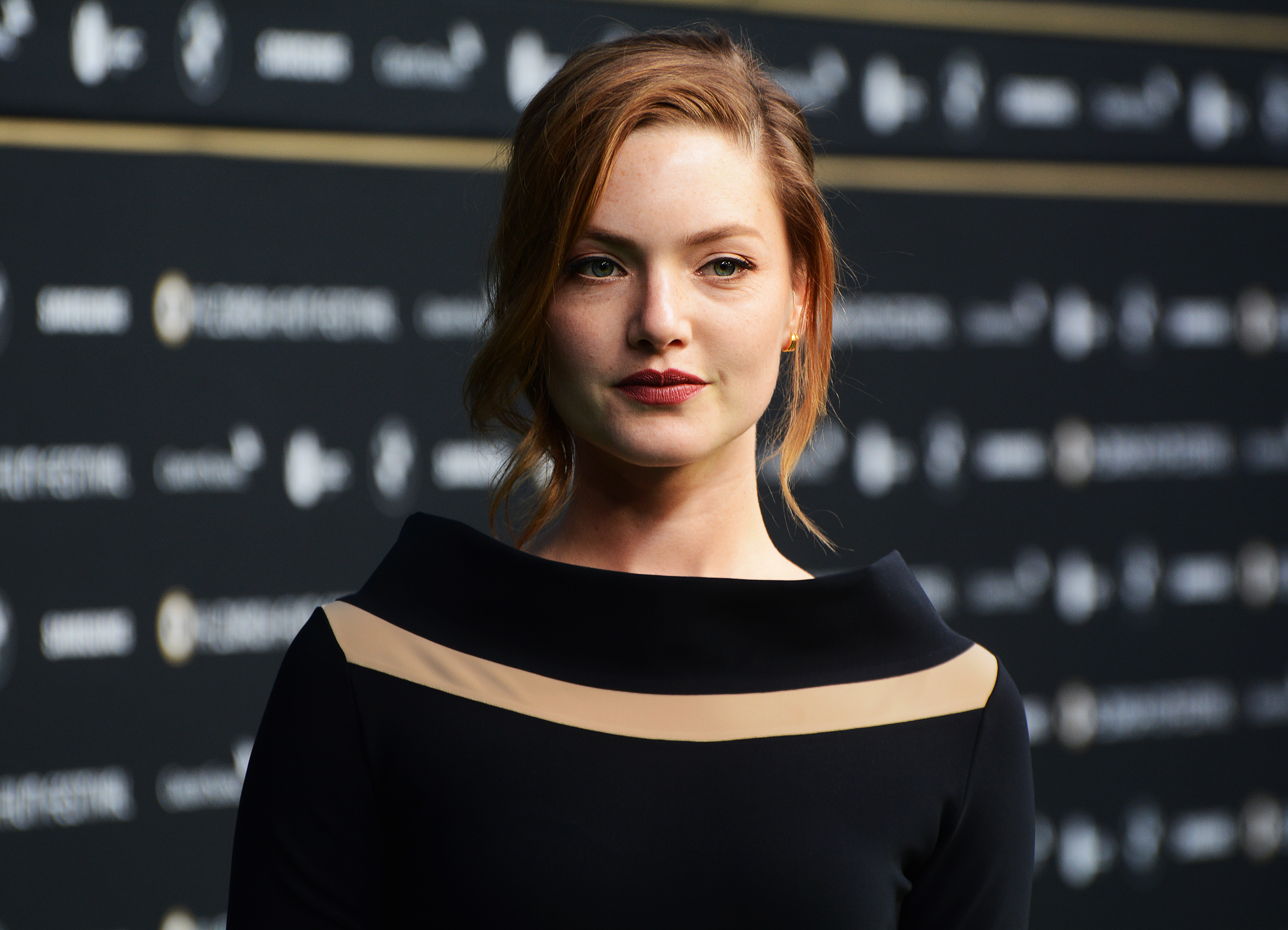 Actress Holliday Grainger attends the Gala premiere of "Tell It to the Bees" during the 14th Zurich Film Festival Award Night on September 30, 2018 in Switzerland.